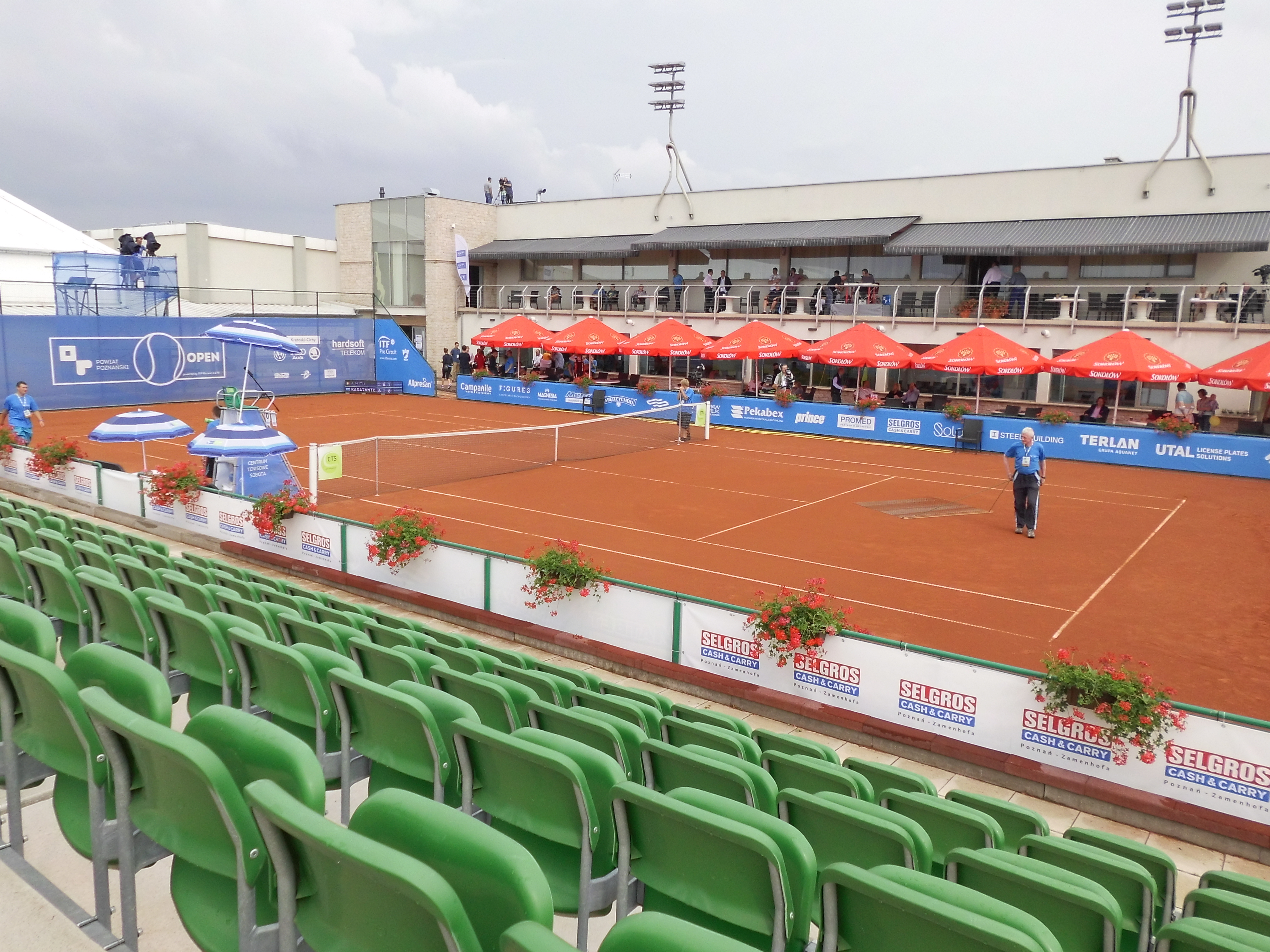 Sobota Tennis Center - main court